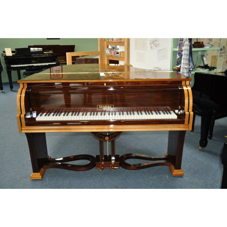 Pianoforte a coda Wohlfahrt